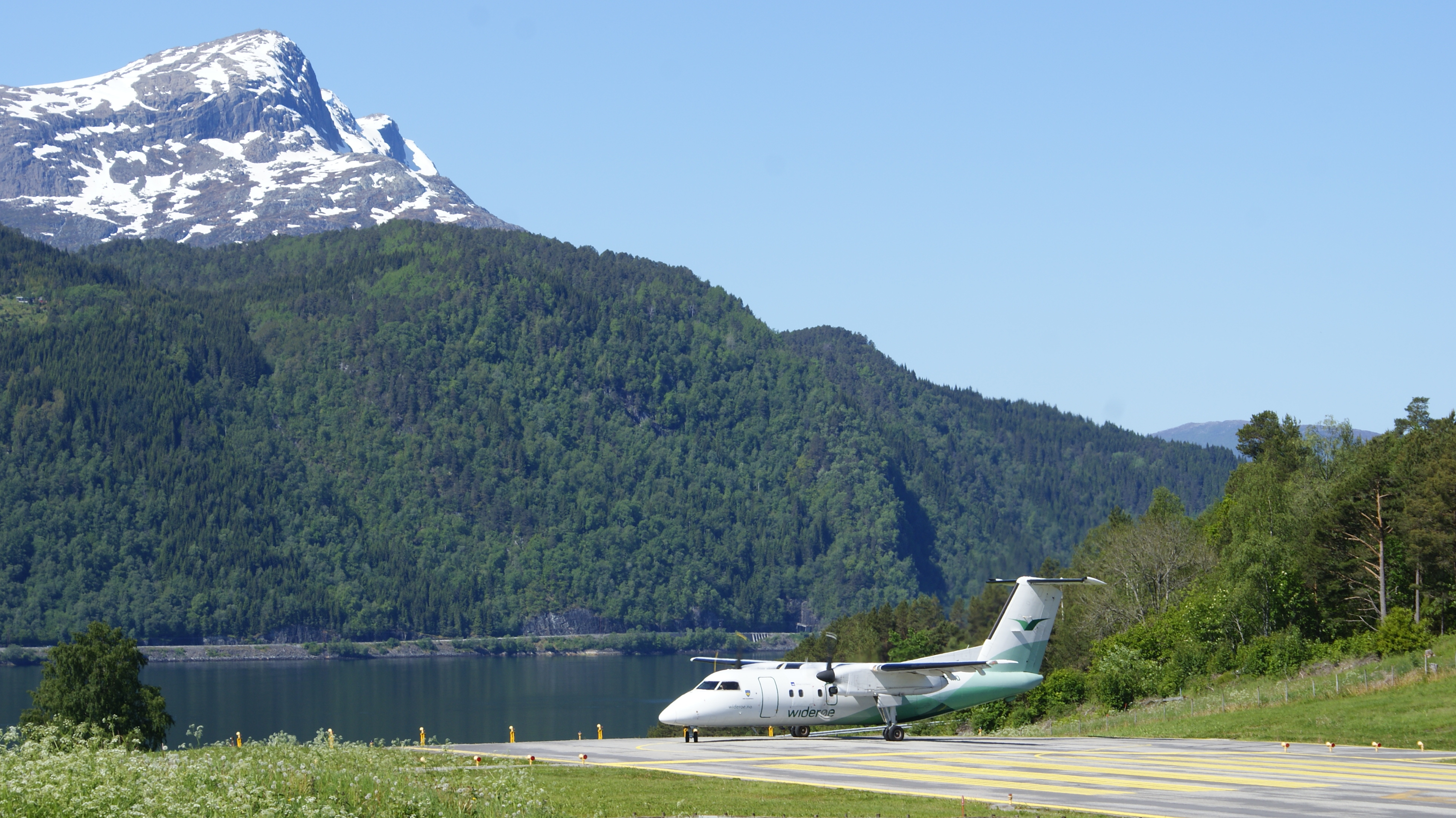 Widerøe de Havilland Canada Dash-8 103 at Sandane Airport, Sogn og Fjordane, Norway. Positioning for takeoff at the end of the runway.